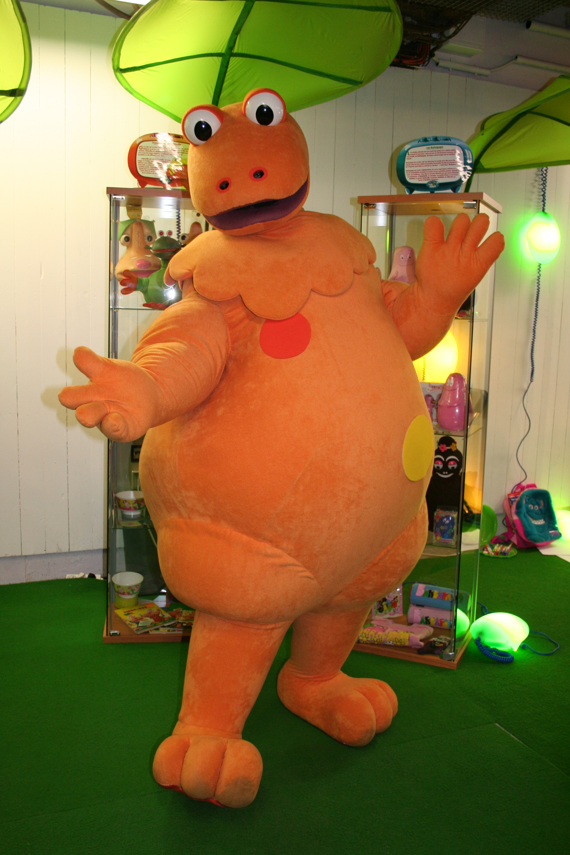 Autograph session with Casimir (Yves Brunier) at Paris Jouets Collections (Paris, France).